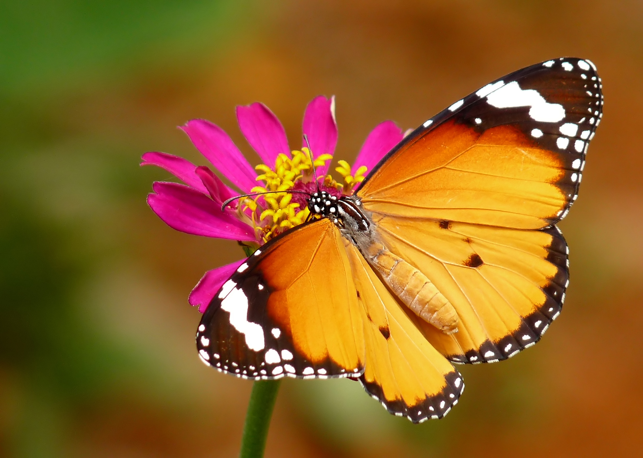 Danaus chrysippus, known as the Plain Tiger or African Monarch, is a common butterfly which is widespread in Asia and Africa. It belongs to the Danainae ("Milkweed butterflies") subfamily of the brush-footed butterfly family, Nymphalidae. It is a medium-sized, non-edible butterfly, which is mimicked by multiple species. This is a female. Taken at Kadavoor, Kerala, India.